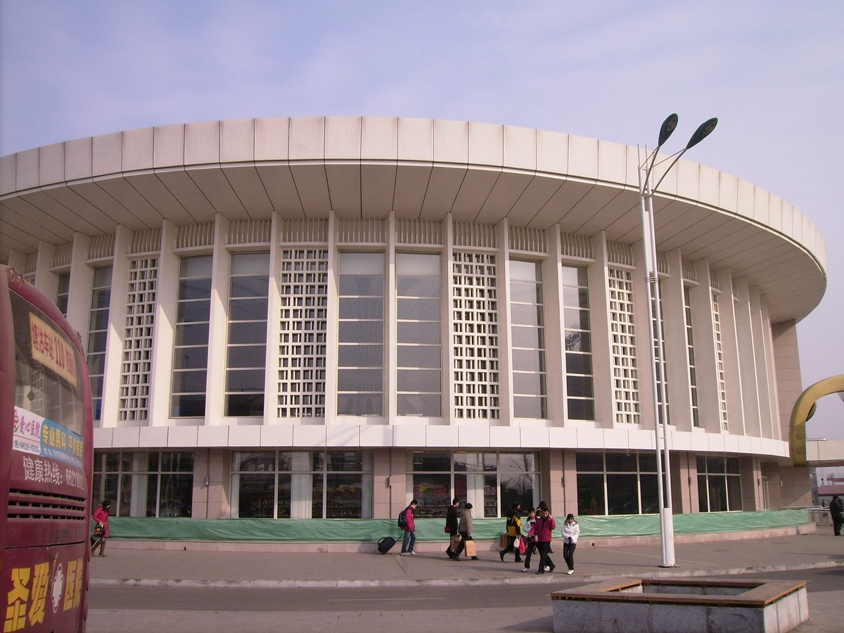 exterieur of Tanggu Railway Station in Tianjin, China